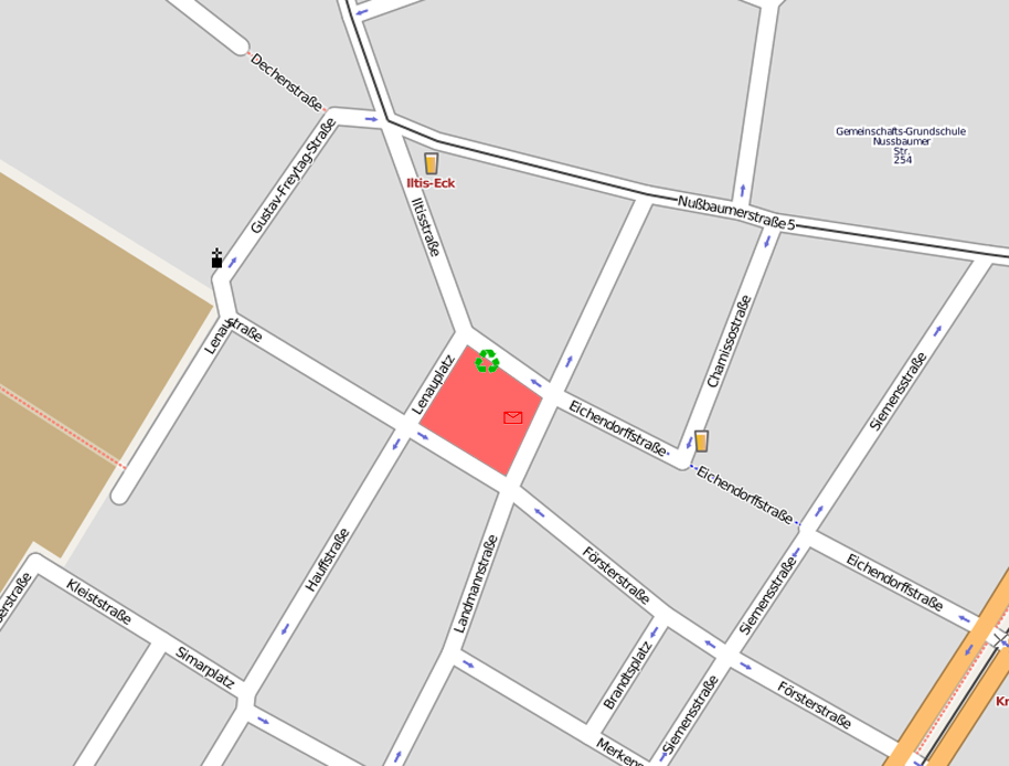 This map of Lenauplatz, Cologne was created from OpenStreetMap project data, collected by the community. This map may be incomplete, and may contain errors. Don't rely solely on it for navigation.